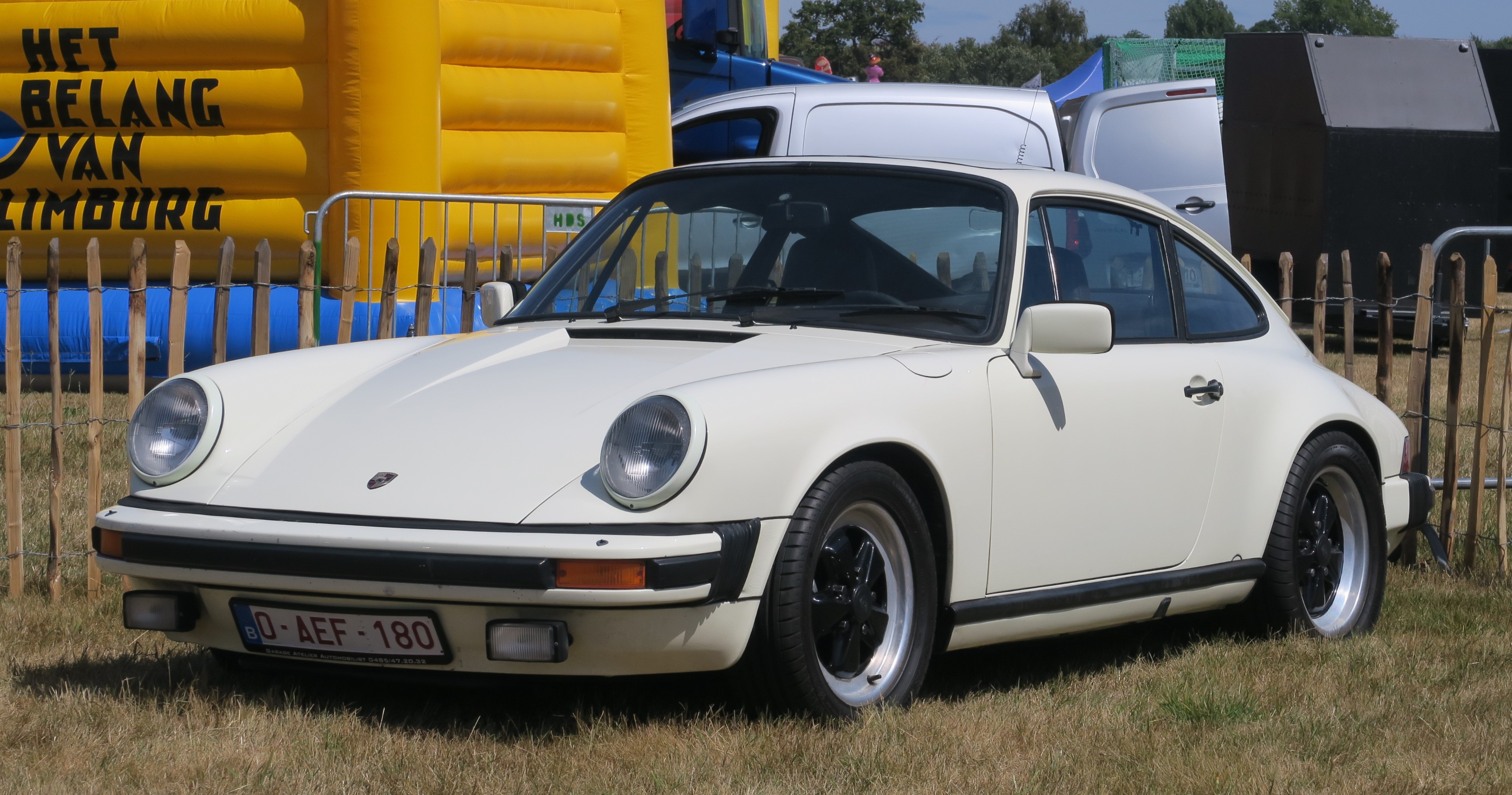 Porsche 911 SC